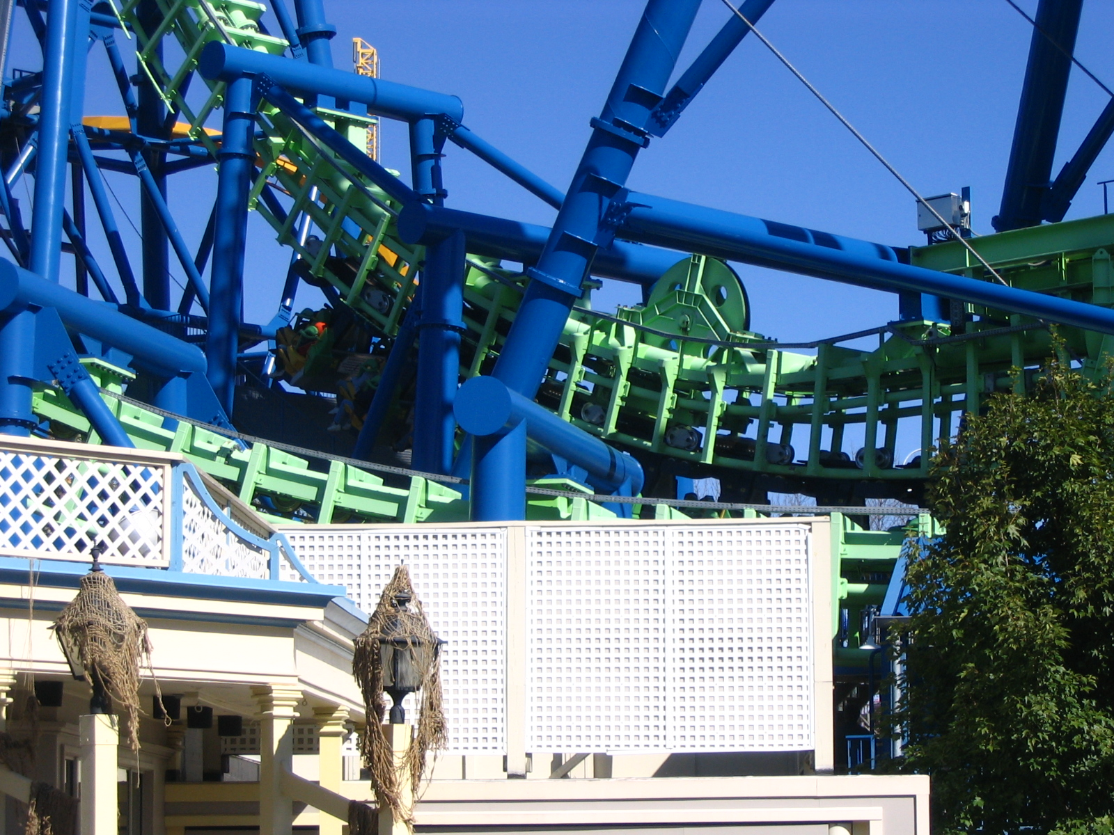 Taken at Six Flags Great America on 10/14/2006. Passengers waiting mid-ride after emergency brakes engaged.